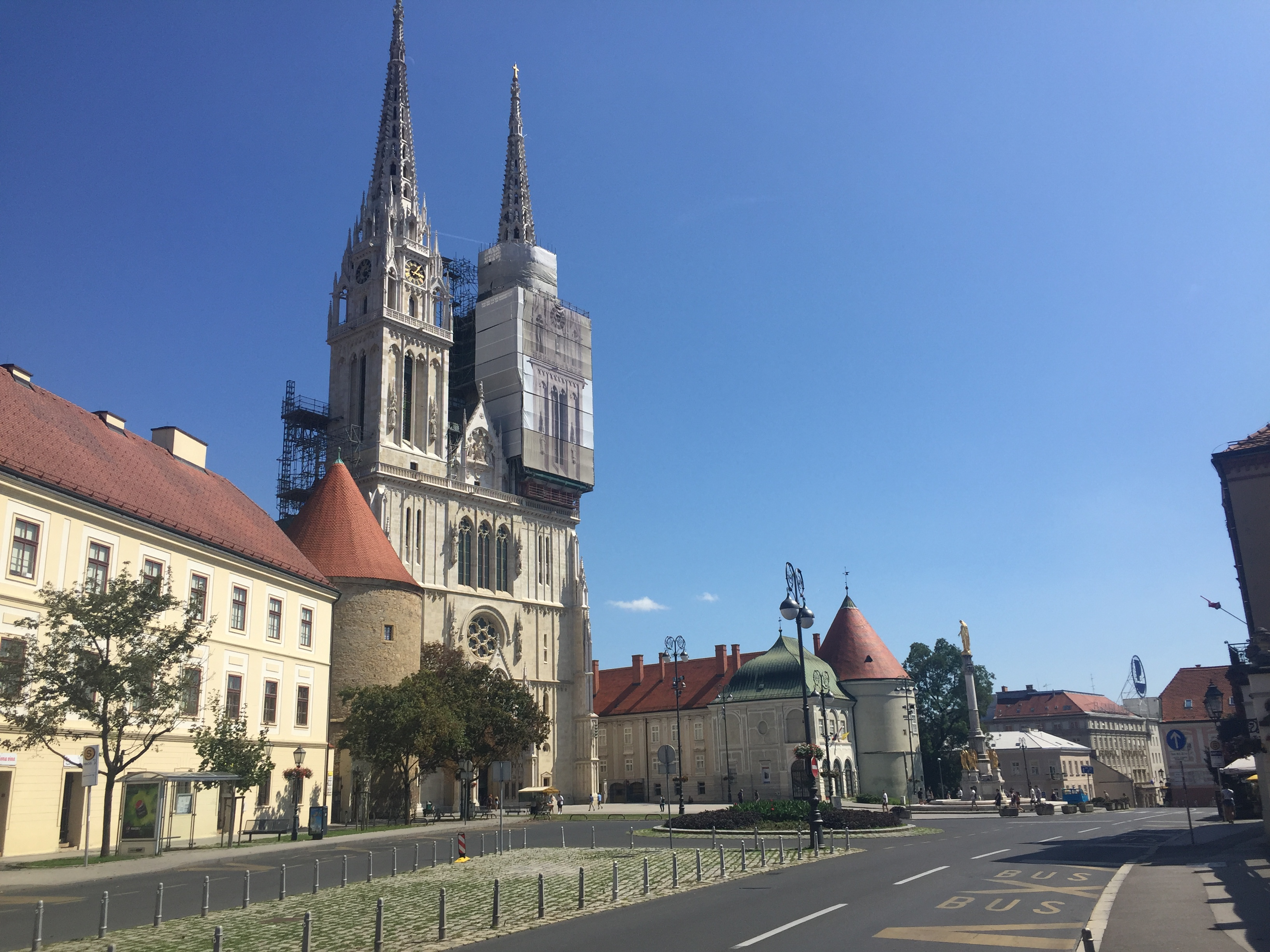 Cathedral of the Assumption of Mary in Zagreb, August 5th 2019